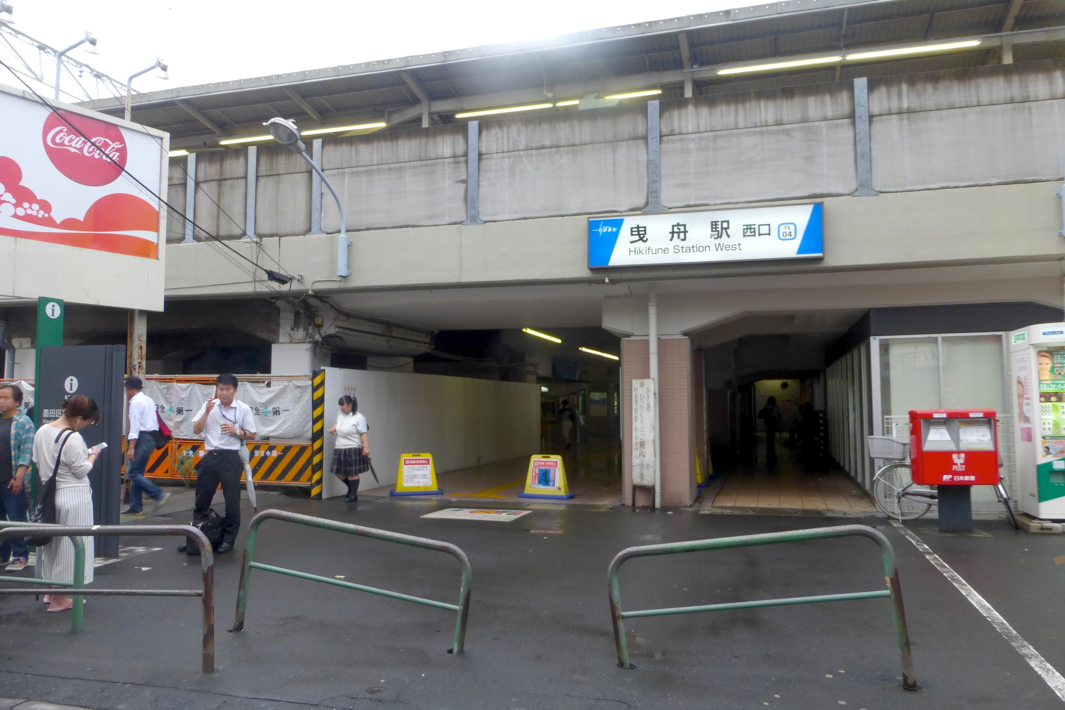 曳舟駅の西口 (West exit of Hikifune Station)